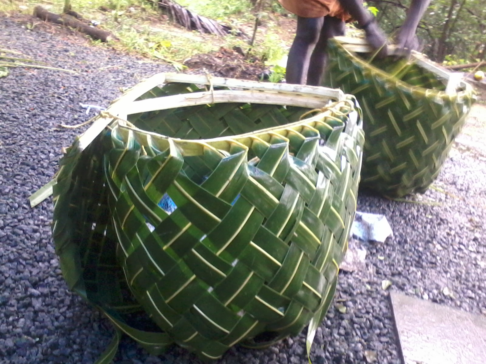 Basket made of coconut leafs